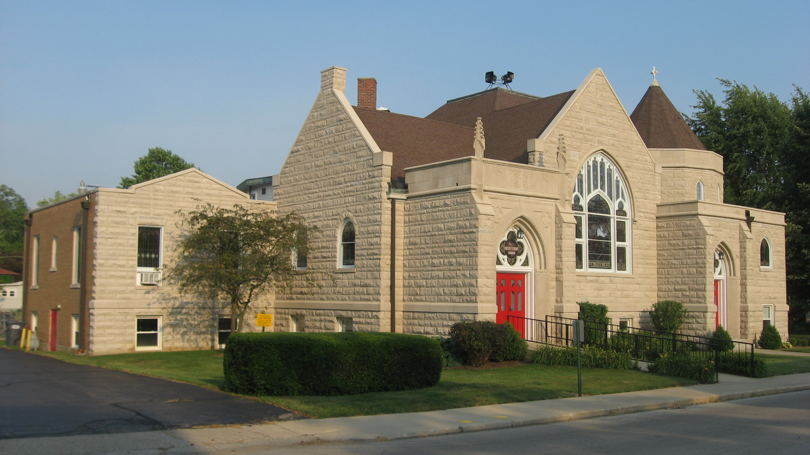 Front and northern side of First Presbyterian Church, located at 201 E. Franklin Street in Winchester, Indiana, United States. Built in 1903, it is part of the Winchester Residential Historic District, a historic district that is listed on the National Register of Historic Places.